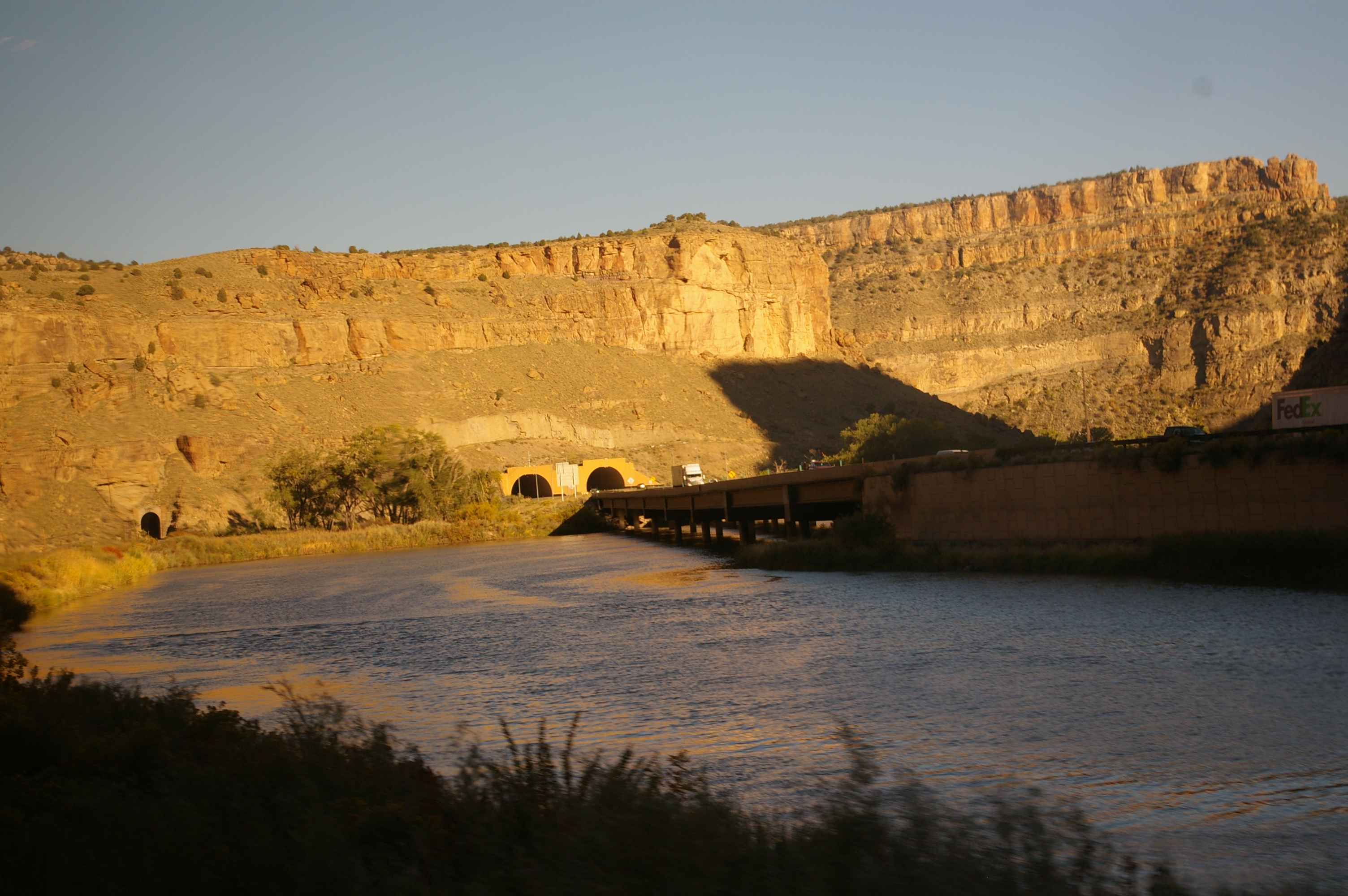 Interstate 70 in Colorado entering the Beavertail Mountain Tunnel through De Beque Canyon. Taken from the California Zephyr